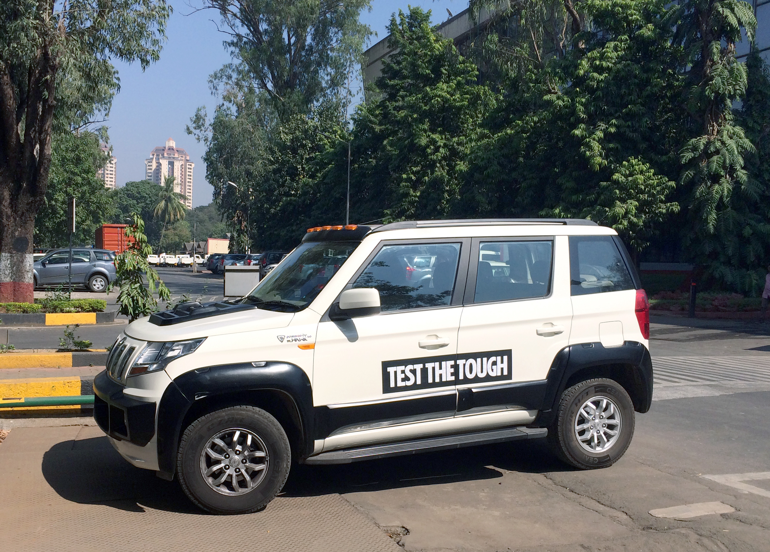 A Mahindra TUV 300 Custom vehicle,2016